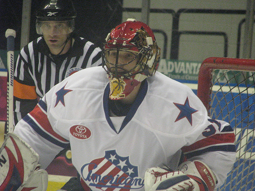 A photo of Alexander Salák